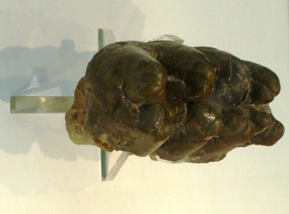 Tetralophodon punjabiensis molar on display in the Museo di Storia Naturale di Verona